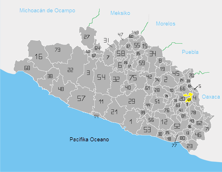 locator map Guerrero 069